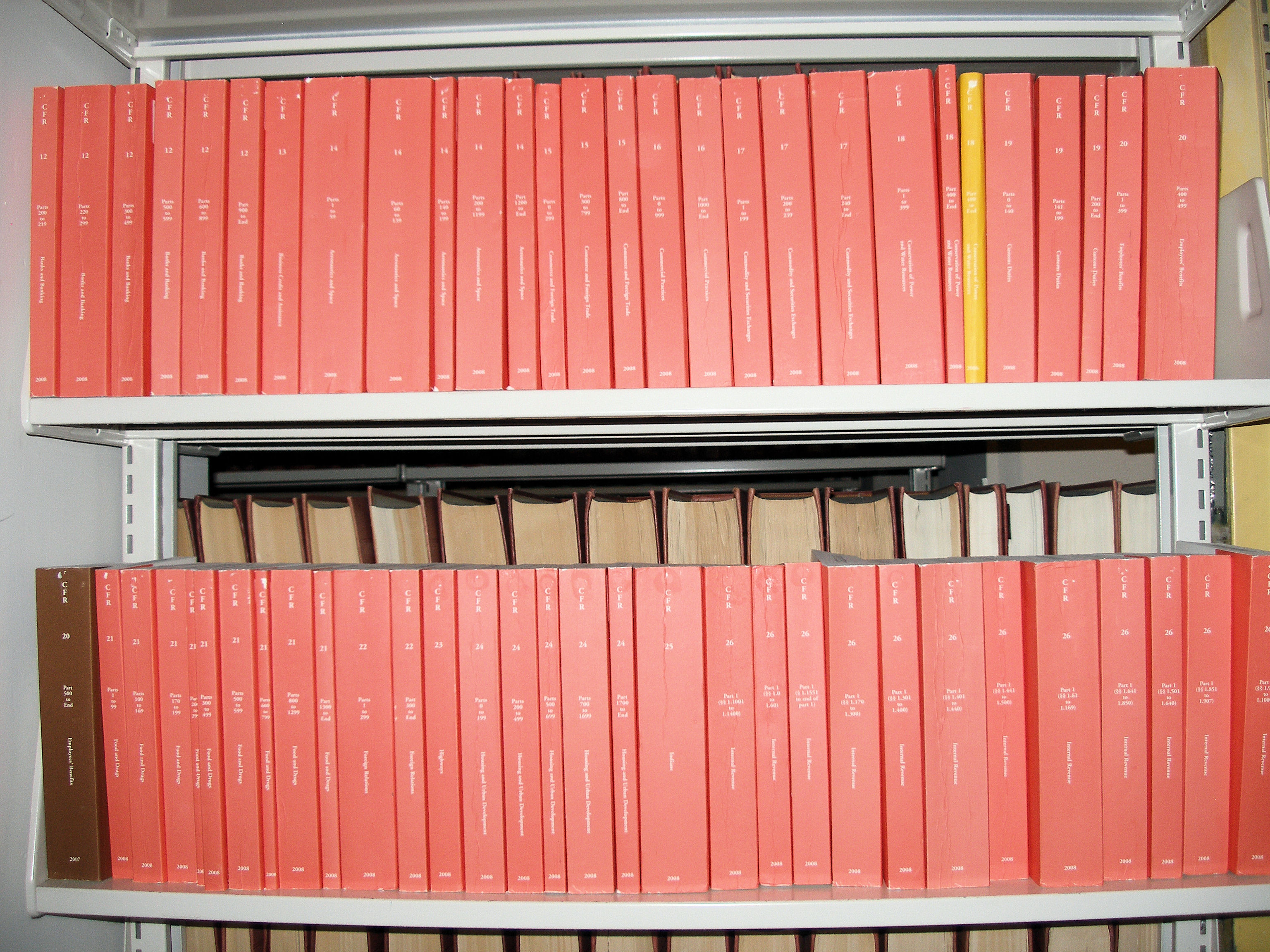 A few volumes of the Code of Federal Regulations (titles 12 to 26 out of 50 titles). The CFR is published each year as a set of softcover volumes which are updated on a quarterly schedule. Photographed at the law library of the UC Berkeley School of Law by user Coolcaesar on February 13, en:2009.